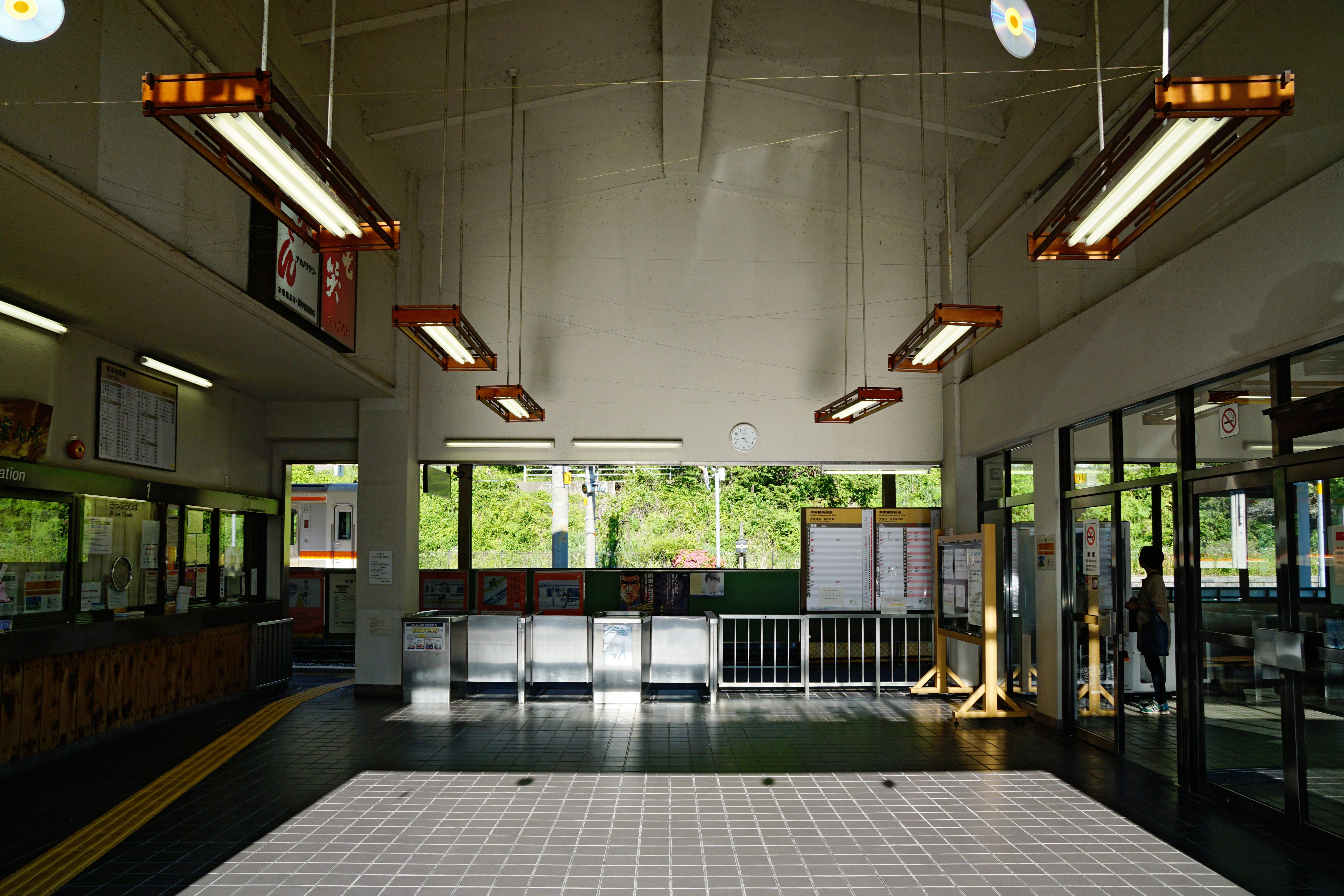 Nagiso Station in Nagiso, Nagano prefecture, Japan